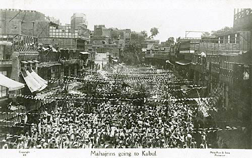 Ghaffar Khan leads a march from Peshawar to Kabul during the Khilafat Movement. Peshawar Street 1920 (Mela Ram & Sons)